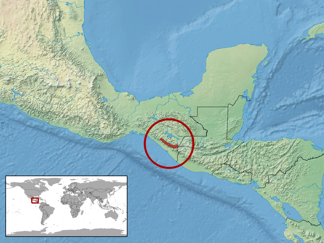 geographic distribution of Abronia smithi (Native: Mexico)